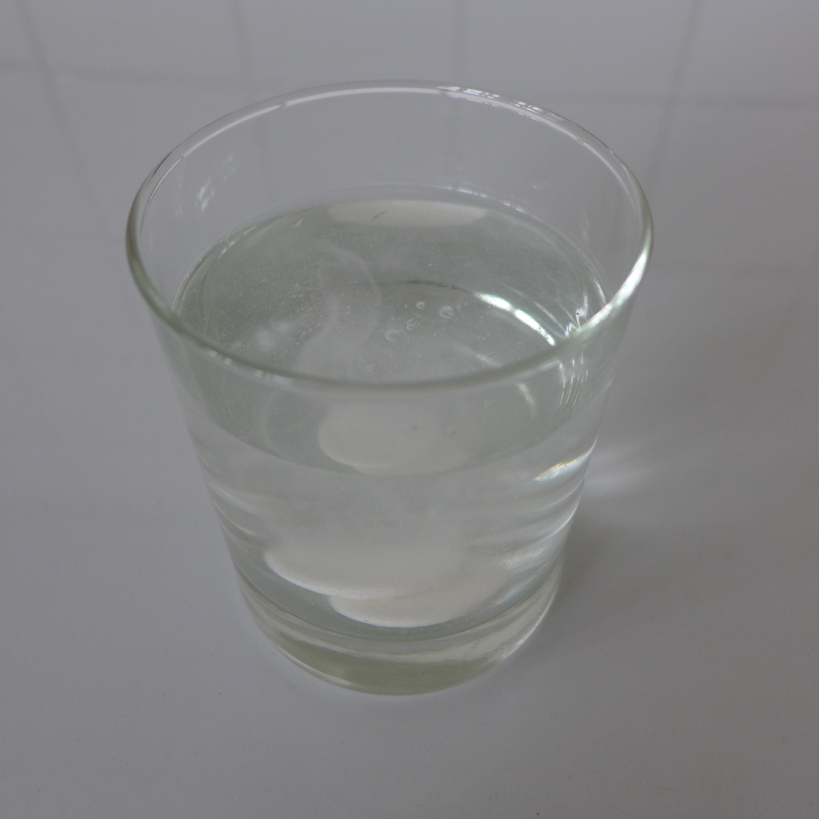 two effervescent tablets for oral rehydration therapy in 200 ml drinking water